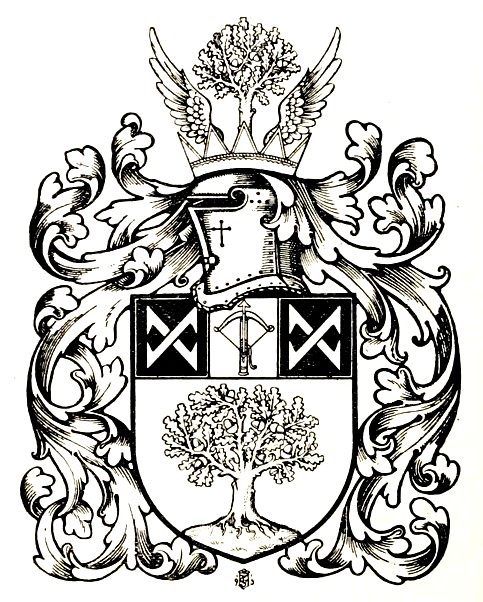 Fox-Davies, Arthur Charles. (1929) Armorial families: A directory of gentlemen of coat-armour. 7th edition. London: Hurst & Blackett.